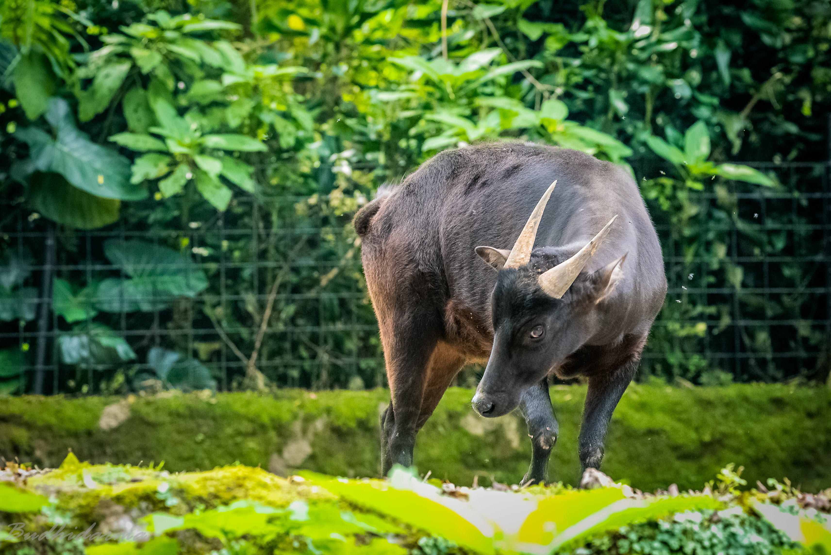 Taman Safari Bogor West Java Indonesia